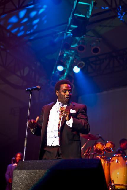 hell yes The Reverend Al Green @ Sonoma Jazz 2008